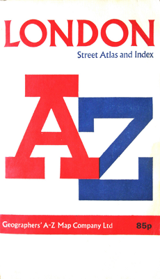 Book cover Paul venter 14:31, 12 October 2006 (UTC)